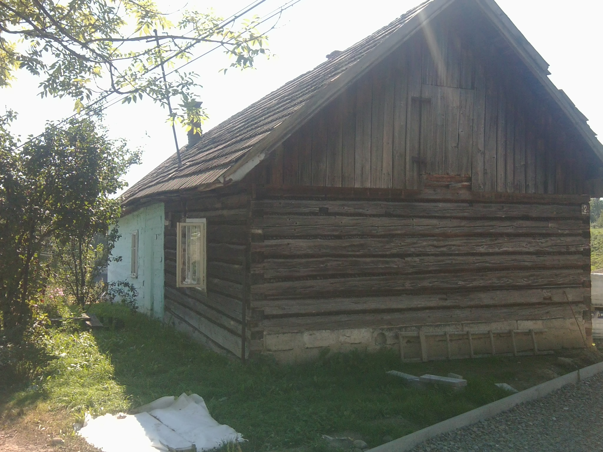 Old buildnig in Chochorowice